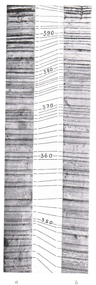 Connection between varved setions №98 Messukulä (a) and №100 Tampere (b) - figure from book Sauramo, M. Studies on the Quarternary varve sediments in southern Finland. — Helsinki-Helsingfors, 1923